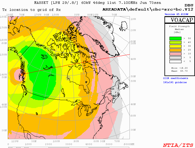 I am making these VOACAP HF area coverage calculations public so as to help users better understand the use of the VOACAP program. It is my hope that these calculations are used in all areas of Wikipedia that pertain to shortwave broadcasting. These calculations were created as part of propagation research contracts I received from Radio Canada International, BBC World Service and other international broadcasting entities before 2003. Some calculations are also derived from a contract with CBC-SRC (Canada) as well as the National Research Council (CHU Time Station) audibility programme. All parties have contractually released their calculations to the public domain. M. Power, CEO Power Broadcasting